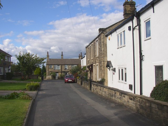 Quaker Lane, Hightown, Liversedge The lane has been suburbanised as far as the pair of houses appearing to close off the end. However the bridleway goes off to the right, and to the left there is a long terrace of houses going down the hillside.